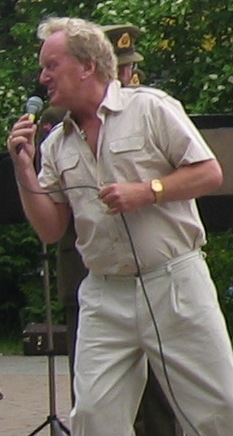 Jan Høiland entertaining at festival in Harstad, Norway